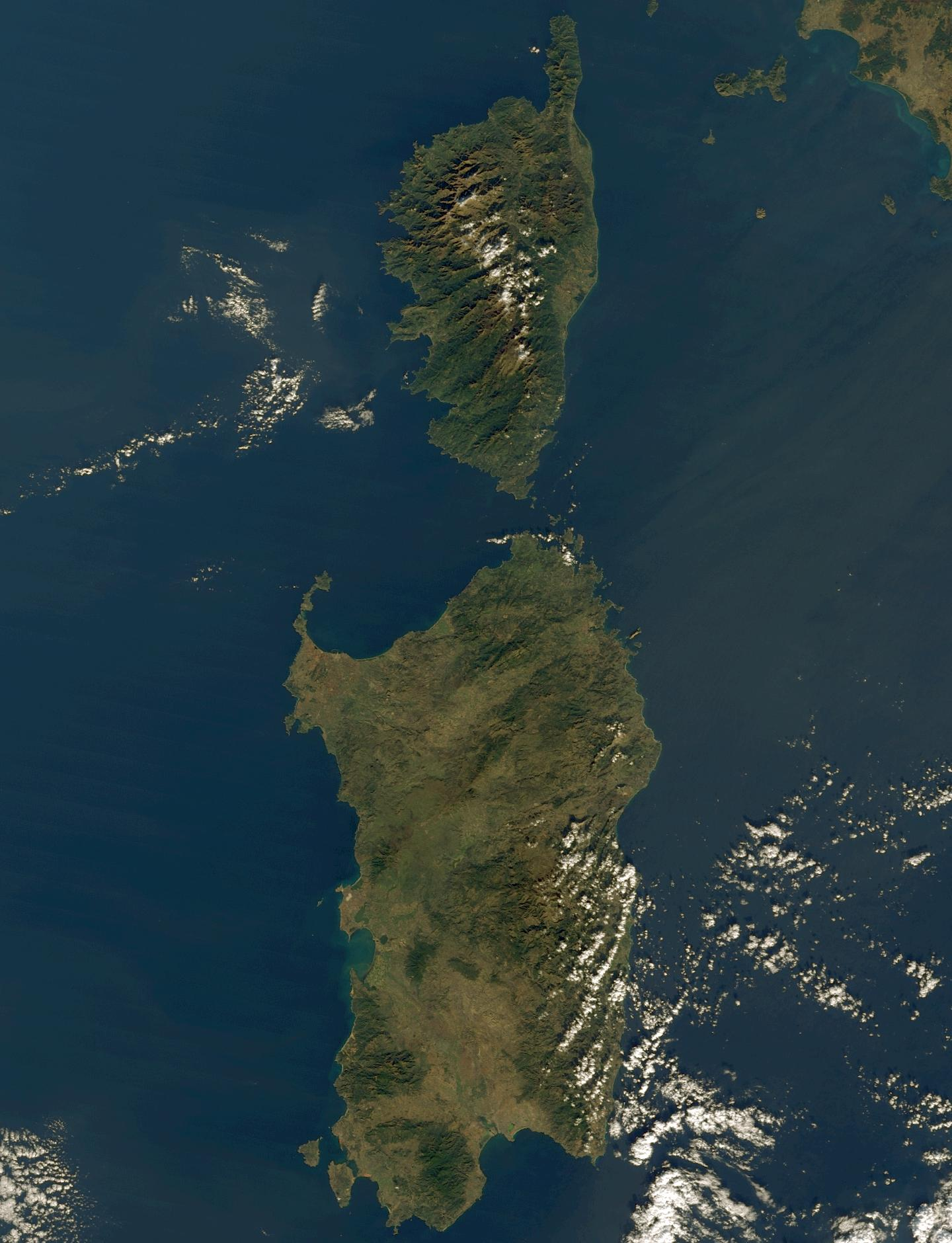 Corsica (France) and Sardinia (Italy) islands, in Mediterranean Sea